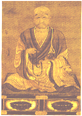 Buddhist monk Genshin (Japan), self portrait(?) at Shōjūraigōji Temple in Ōtsu, Shiga.[1]